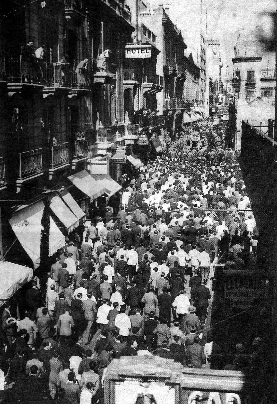 Funeral of Carlos Gardel in Buenos Aires. A huge crowd accompanied the coffin of the singer, here walking on Florida street.